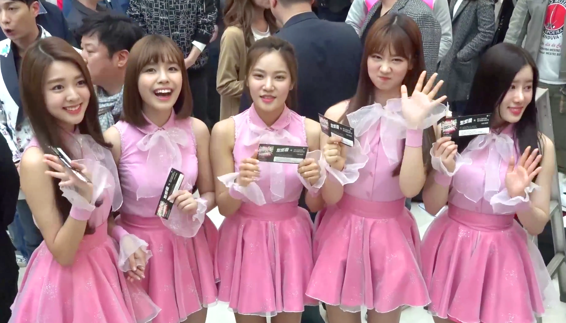 Berry Good at Super Concert press event, 19 March 2015. Left to right: Sehyung, Gowoon, Seoyul, Daye, Taeha.